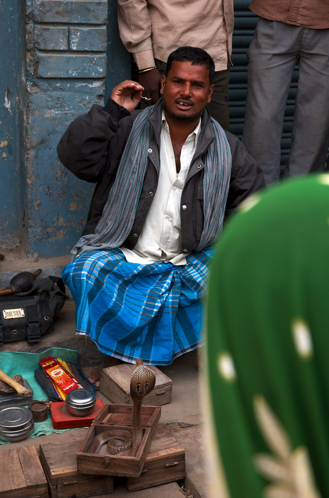 A snake charmer with an Indian Cobra in Janakpur, Nepal